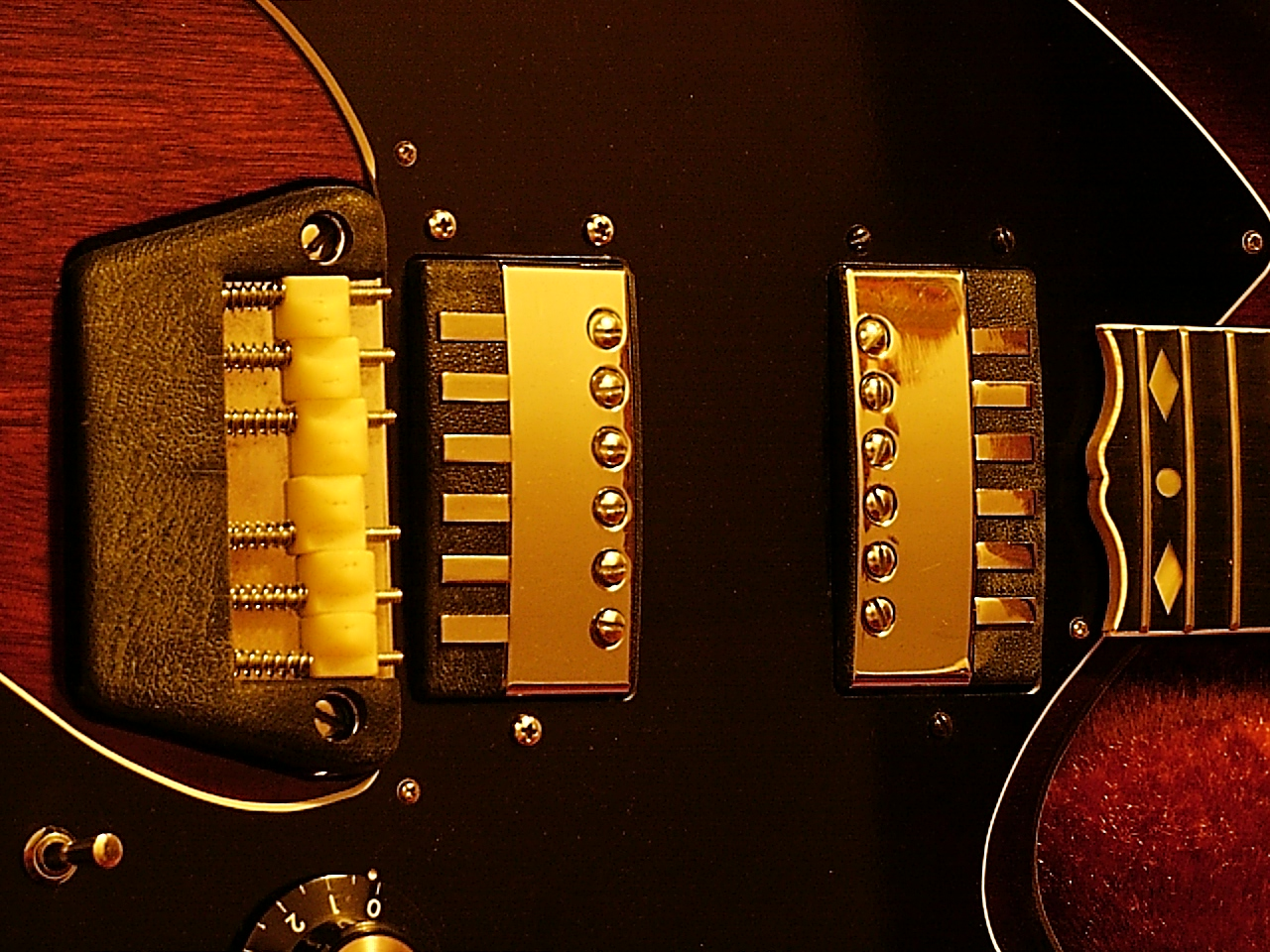 Ovation Deacon and Breadwinner early model shot of the bridge and toroidal pickups.